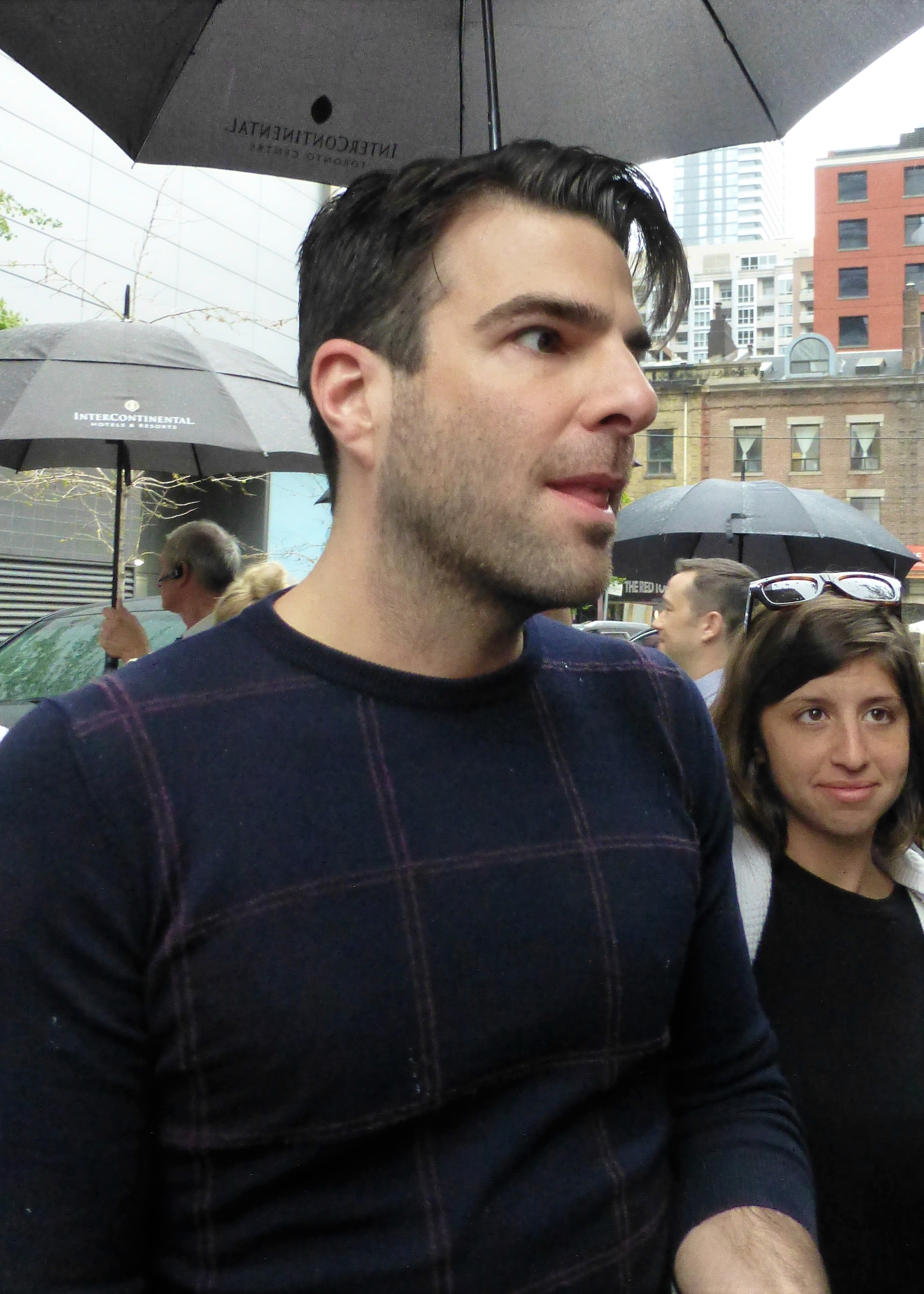 Zachary Quinto at the press conference of Snowden, 2016 Toronto Film Festival